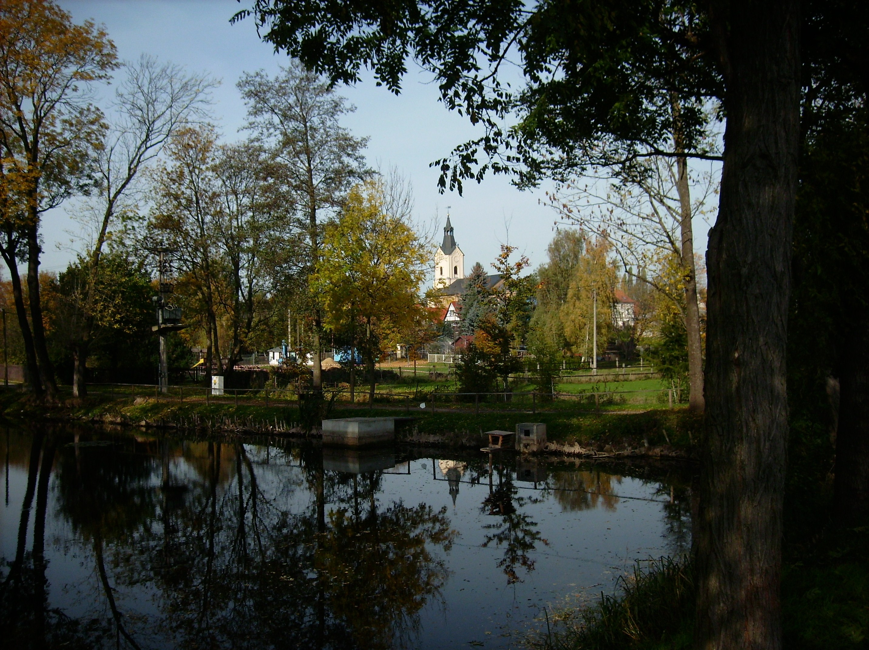 Pond in Grossröda (Starkenberg, district of Altenburger Land, Thuringia)